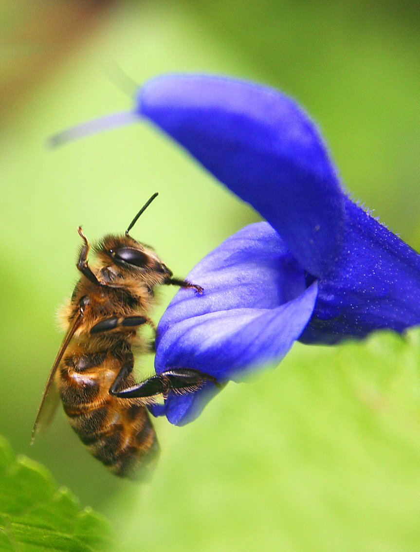 This lil bee was kind enough to wave to the camera for me. (Salvia spp.)